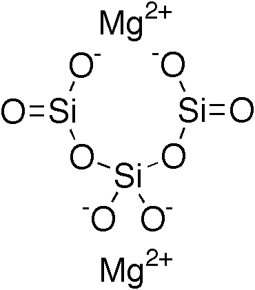 chemical structure of magnesium trisilicate